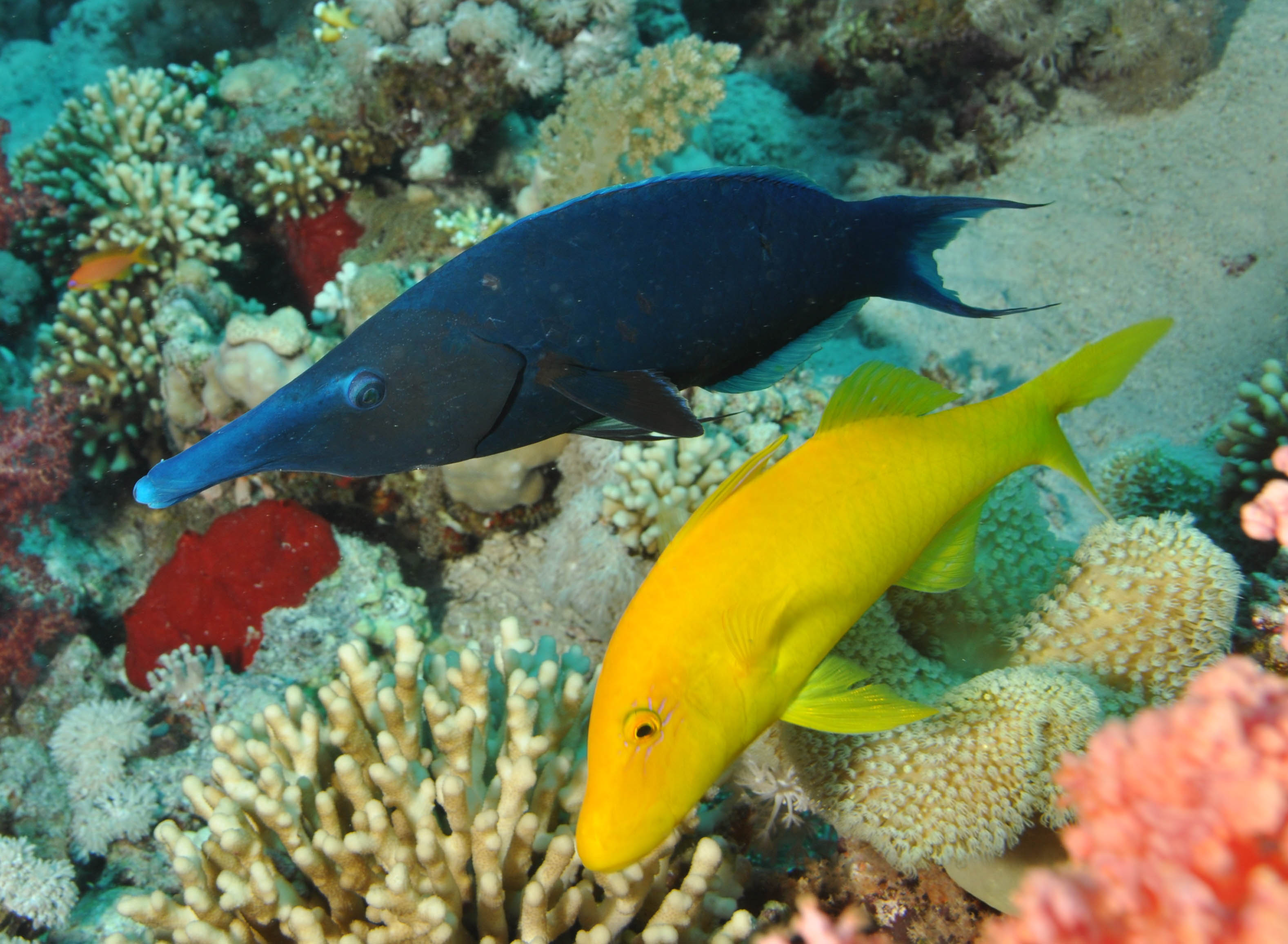 Green Birdmouth Wrasse swimming with Yellow Goatfish